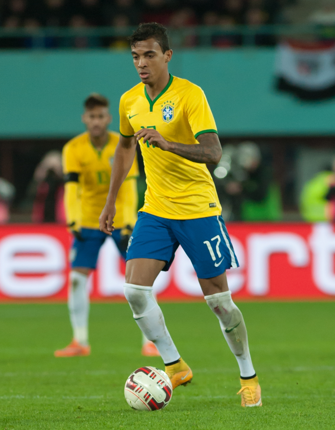 International Friendly Austria - Brazil November 18, 2014: Luiz Gustavo